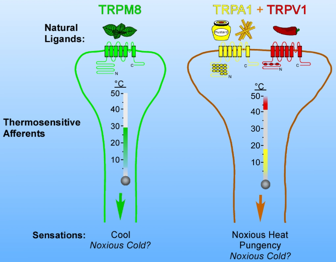 Molecular identity of cold-sensitive afferents based upon the expression of TRPM8 and TRPA1. TRPM8 and TRPA1 are found in distinct and non-overlapping populations of sensory afferents, with TRPA1 expressed exclusively in some, but not all, neurons that express the heat-gated channel TRPV1. These thermosensitive TRP channels respond to a number of naturally occurring pungent compounds, such as menthol (mint), allyl isothiocyanate (mustard oil), cinnamaldehyde (cinnamon), and capsaicin ('hot' chili peppers), thus providing a molecular explanation for how these compounds provide distinct sensations of cold, heat, or spiciness. Based upon in vitro characterizations of these channels, along with their distinct expression patterns, thermal stimuli activating TRPM8-expressing afferents elicit the sensation of cool to potentially noxious cold, while TRPA1 afferents will merge both noxious cold and noxious heat, due to the expression of TRPV1.